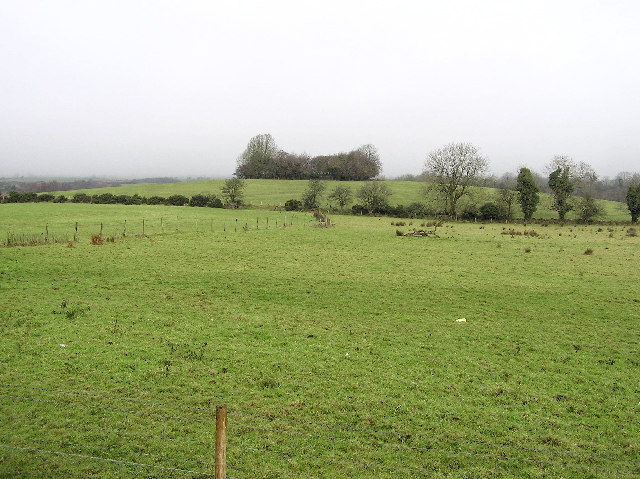 Rath at Lisnacreaght. This rath is visible from the roadside